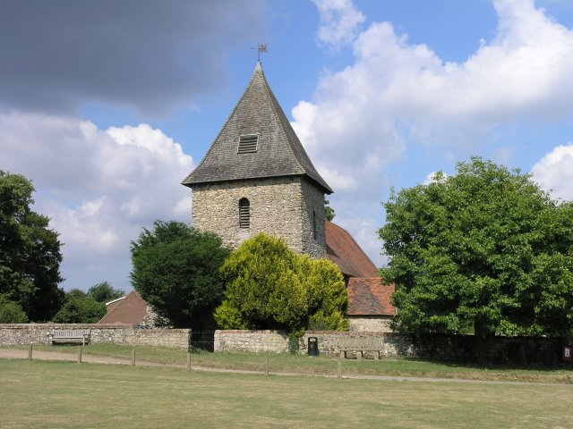 St Dunstan's parish church, West Peckham, Kent, seen from the west